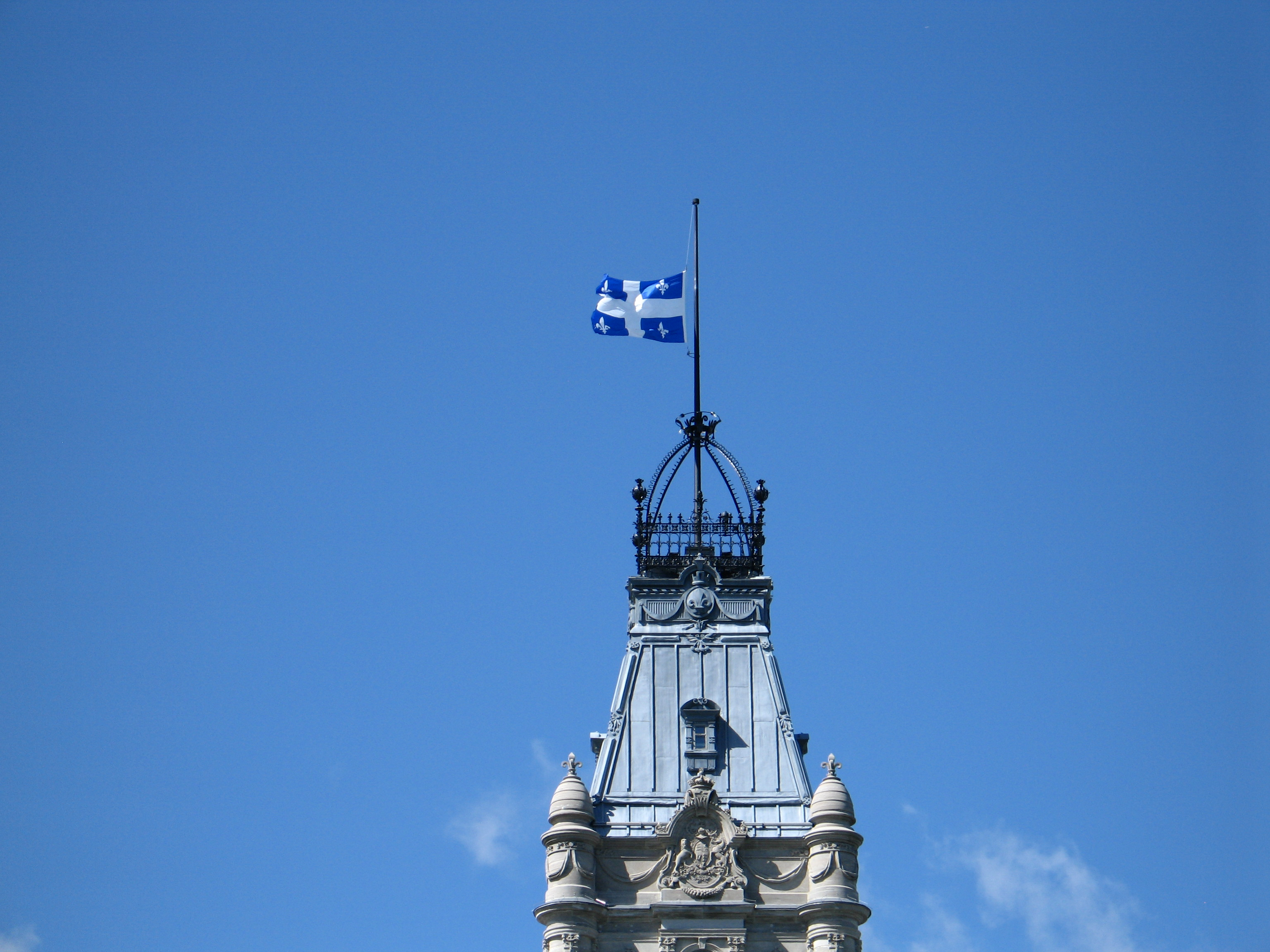 The Government of Quebec ordered all Quebec flags on government buildings, including the Parliament Building in Quebec City (photo), to be lowered at half staff between July 11 and 17, 2013 following the July 6, 2013 Lac-Mégantic train derailment.